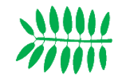 Leaf morphology even pinnate (extraction of Leaf_morphology_no_title.png)